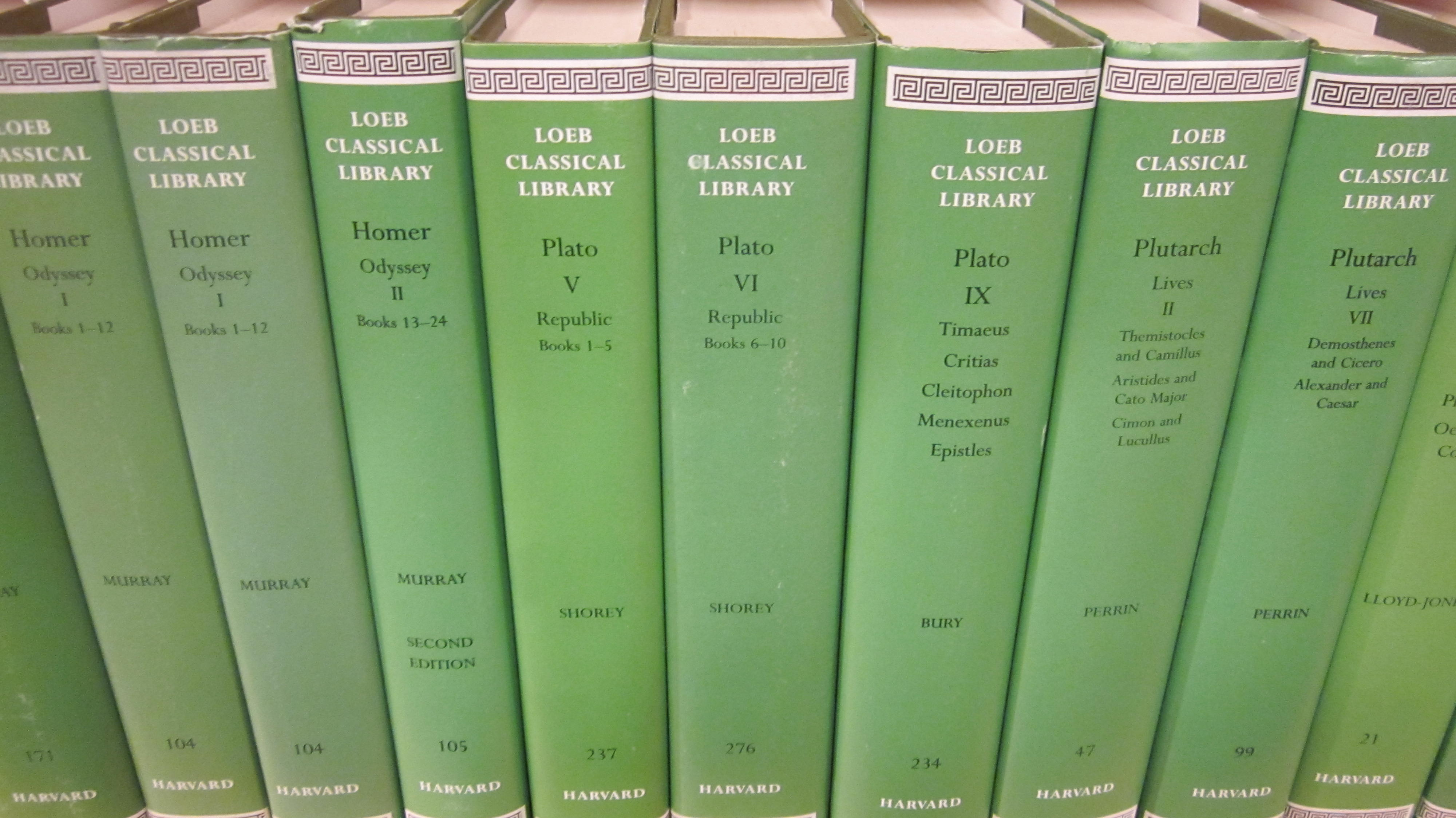 Books in the Loeb Classical Library at Borders in the Westfield San Francisco Centre.